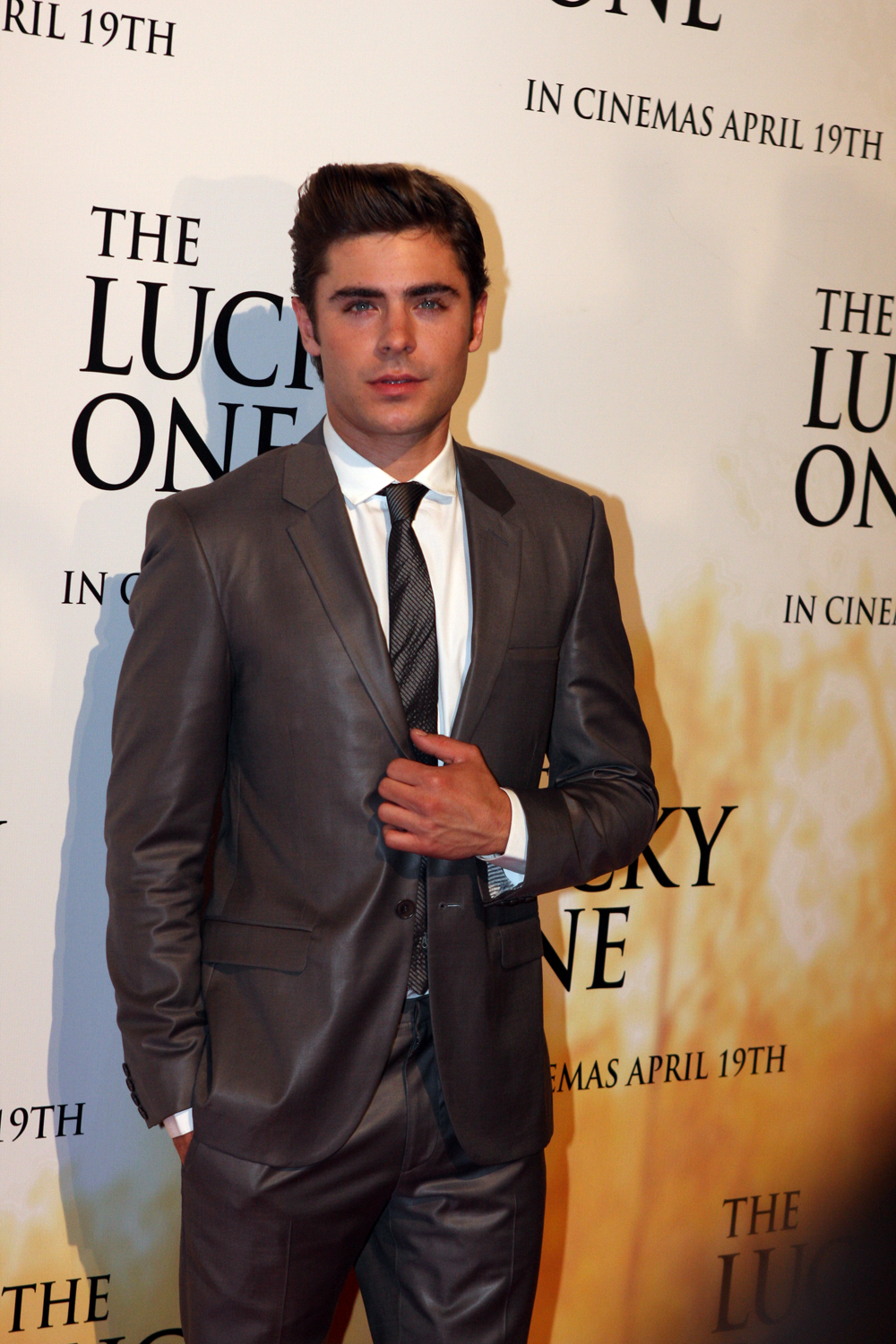 The Lucky One World Premiere At Bondi Juction, Sydney, Australia